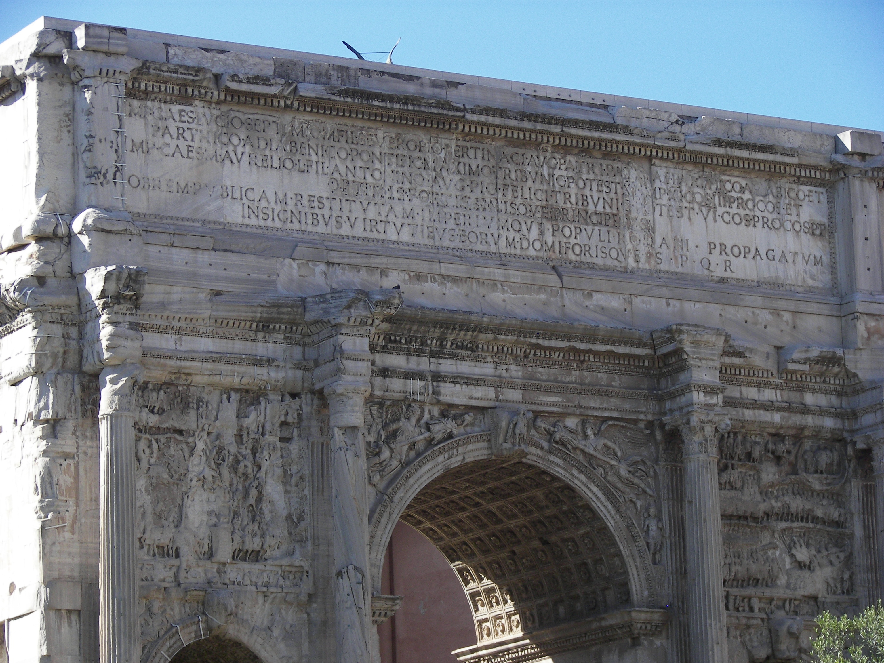 The Arch of Septimius Severus in the Forum Romanum in Rome. The inscription is catalogued as CIL VI 1033 (cf. VI 36881).